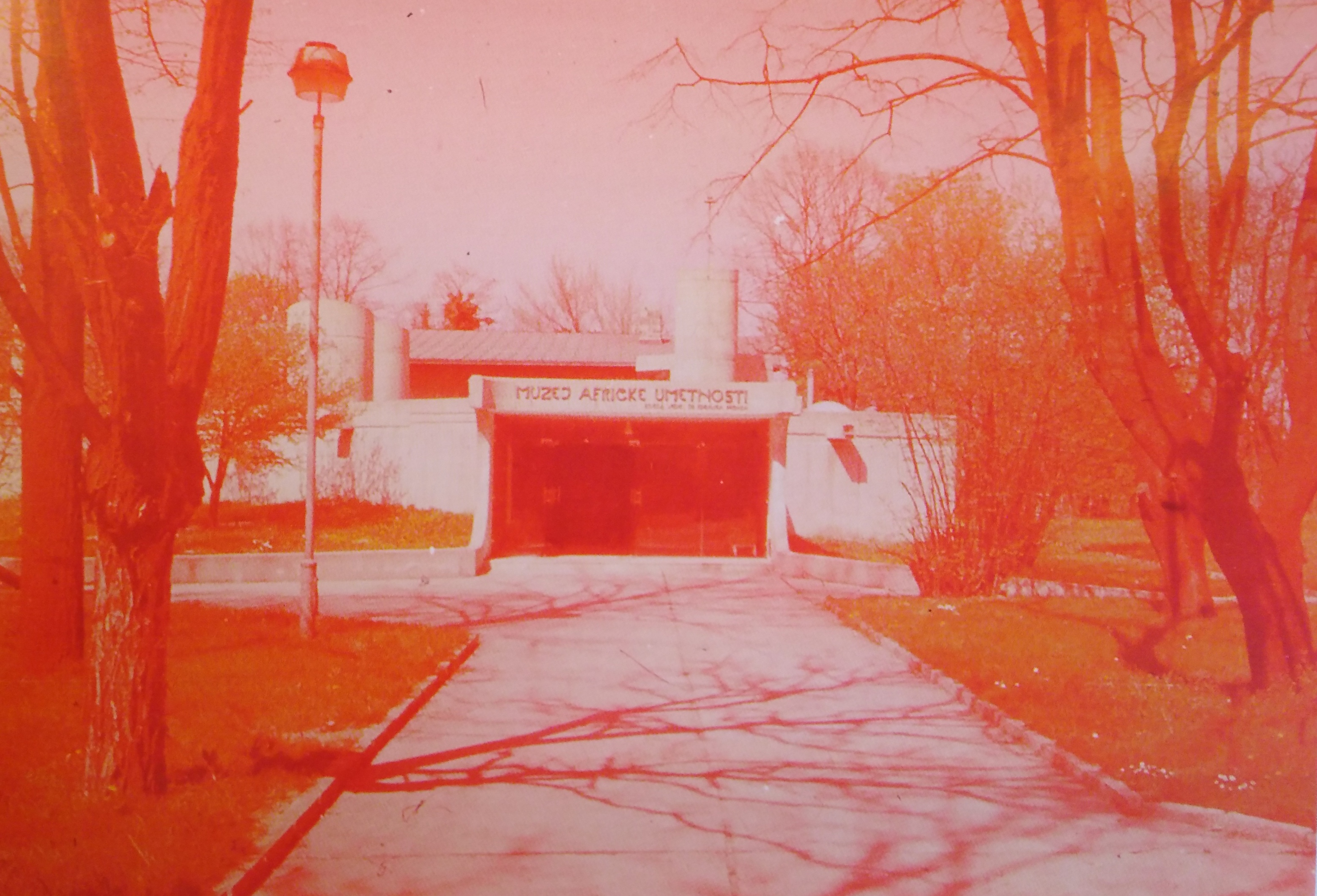 Museum of African Art - The Veda and Dr. Zdravko Pečar Collection Old Building